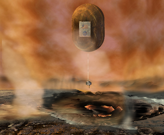 A Venus in situ exploration mission will help us understand the climate change processes that led to the extreme conditions on Venus today and lay the groundwork for a future Venus sample return mission.